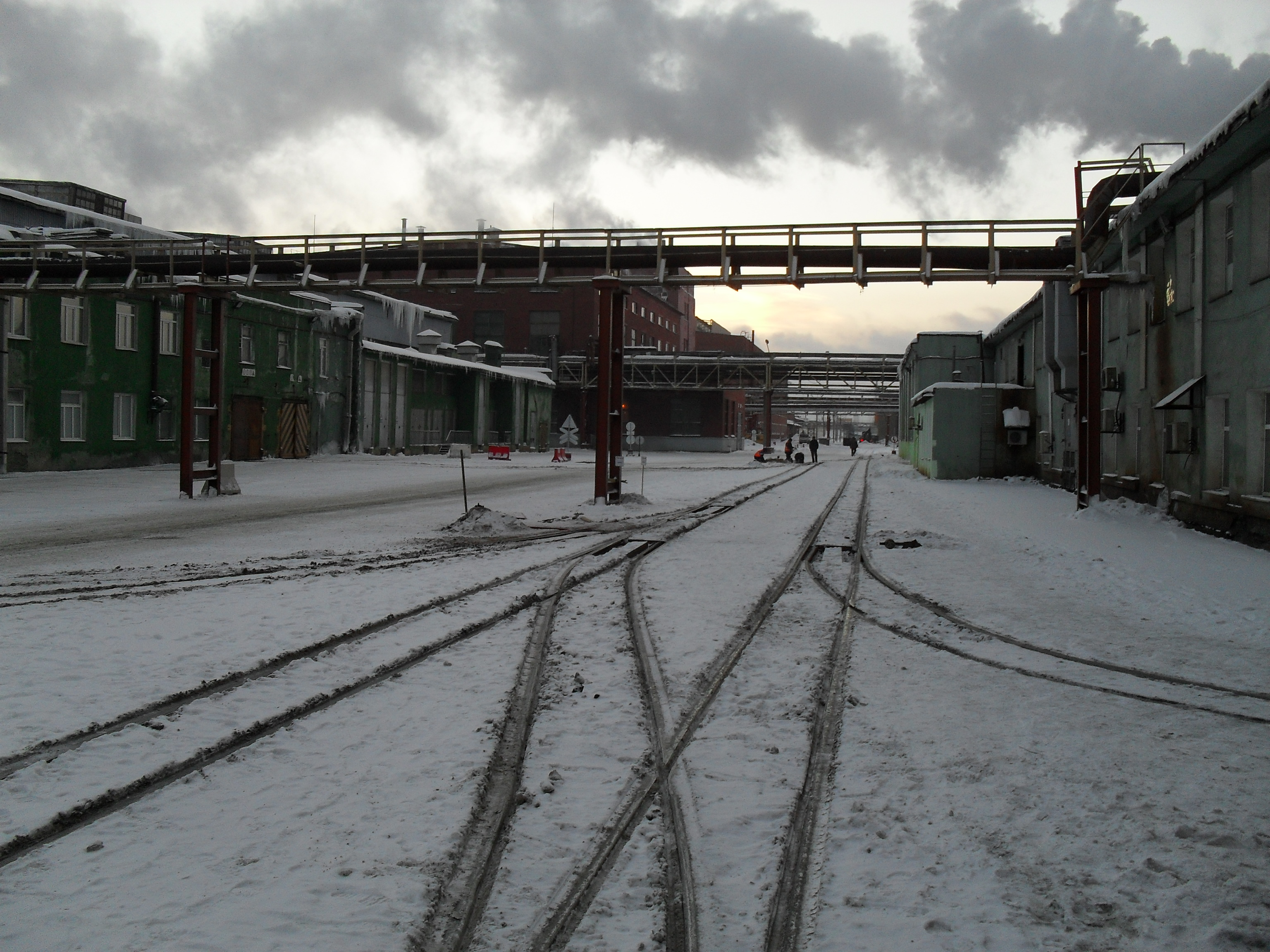 UMMC Railway